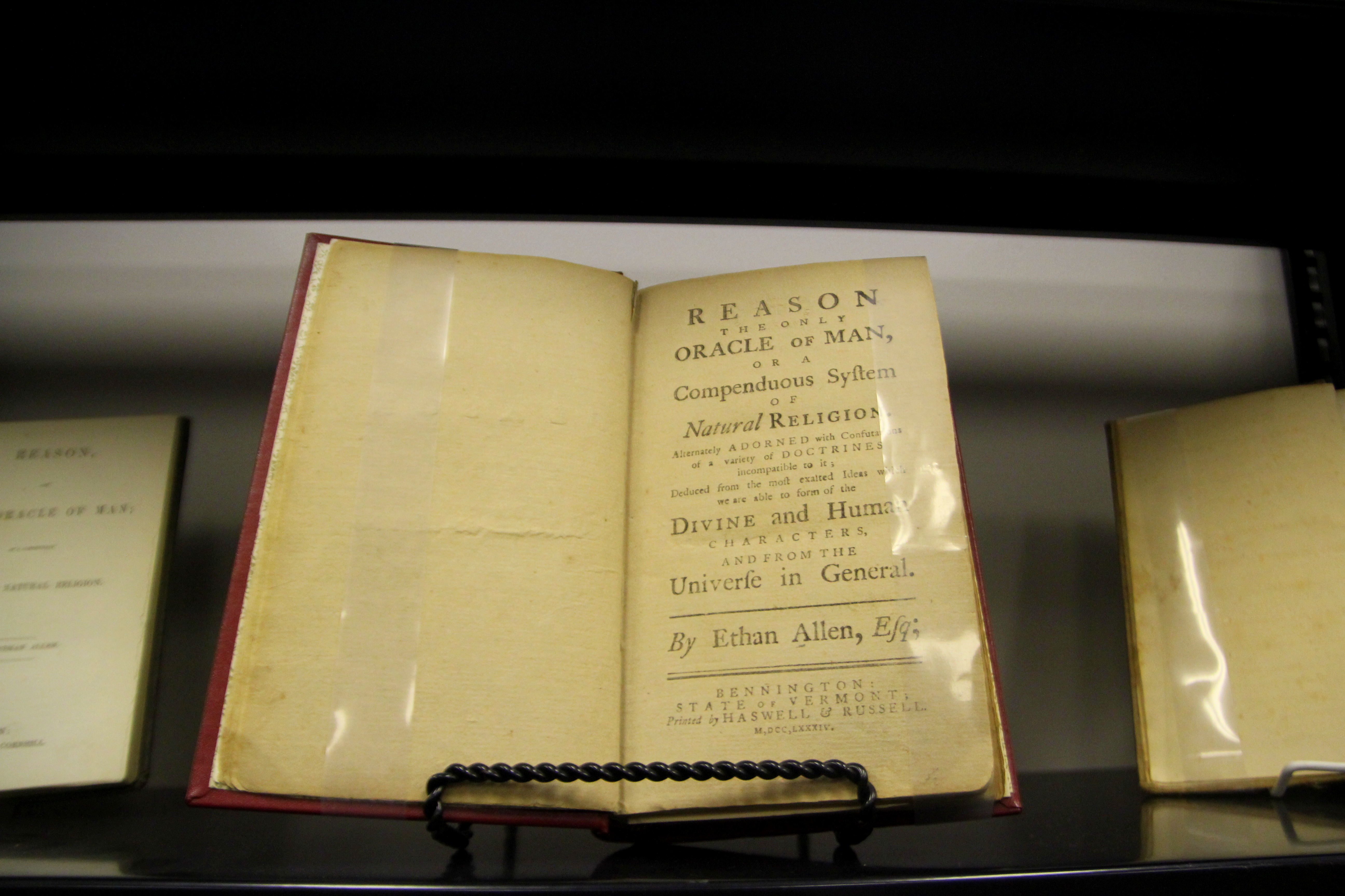 Ethan Allen Book